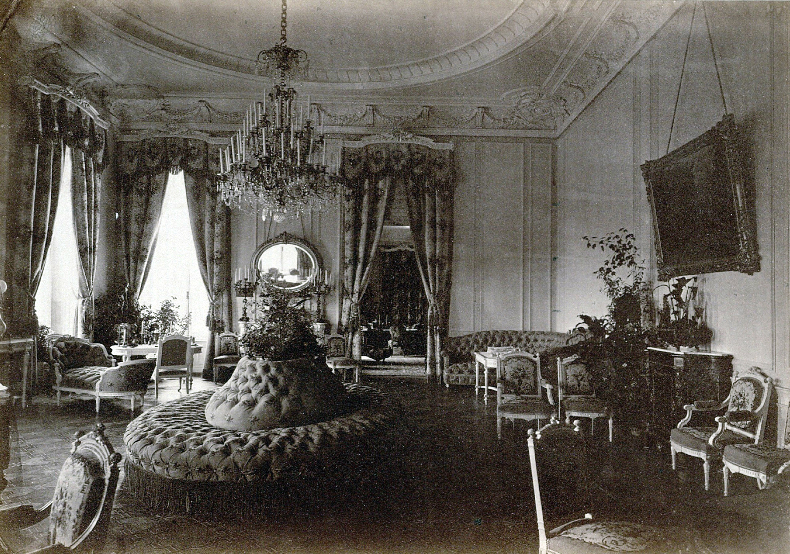 Palace of Caucasian Viceroy, Tiflis